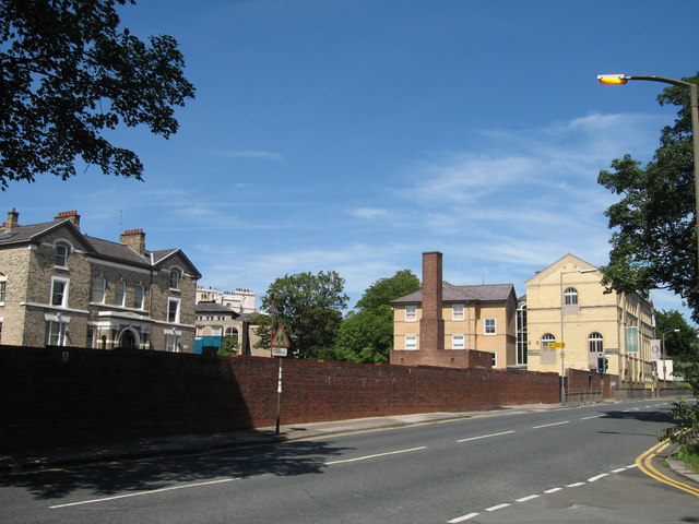 Bellerive School, Ullet Road Bellerive School in Ullet Road which now goes by the name of Bellerive FCJ Catholic College. The original convent in Windermere Terrace was built in 1844.